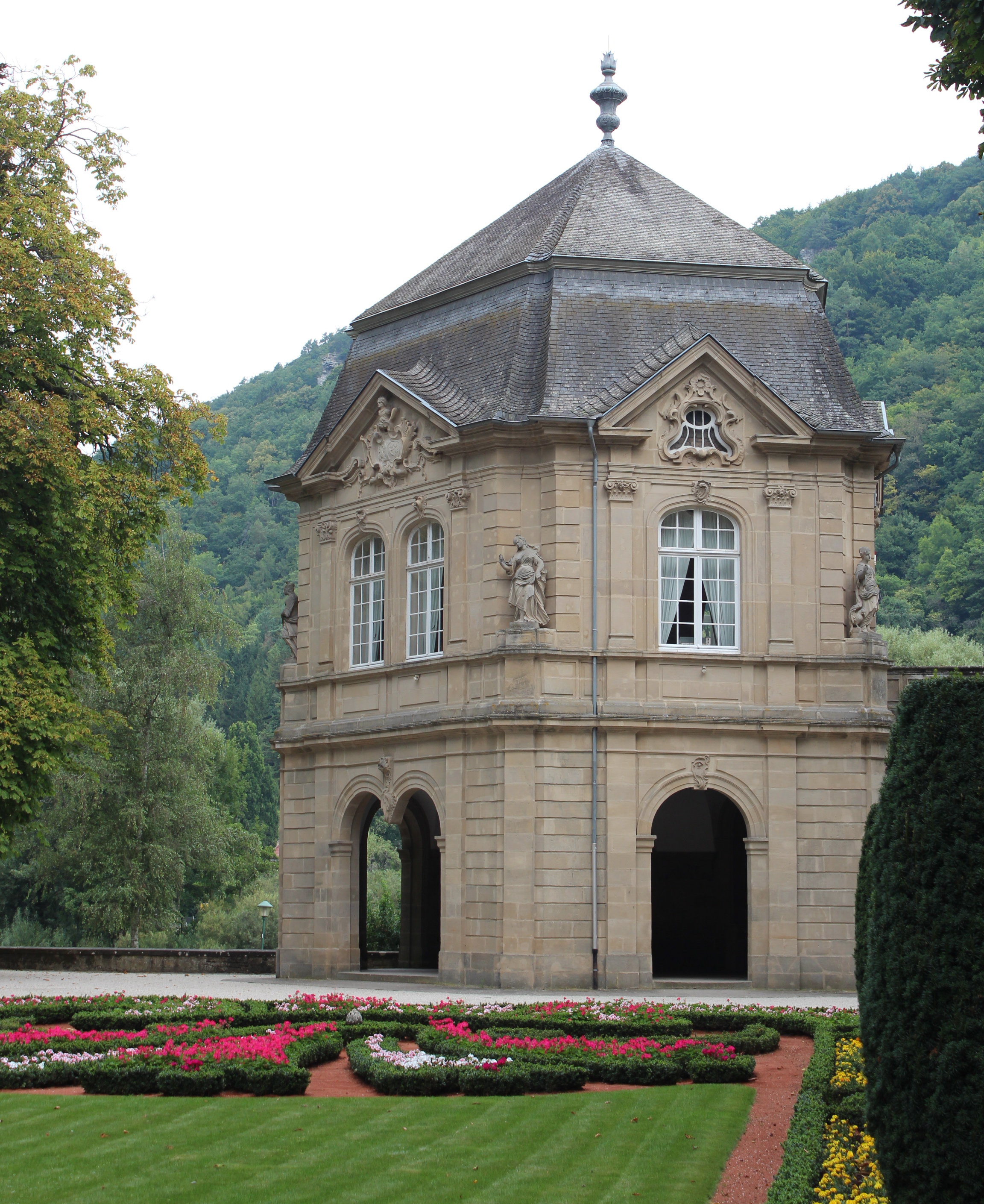 Rokoko pavillon in the garden of the former abbey of Echternach, Luxembourg. Built in 1765 after plans by Paul Mungenast.